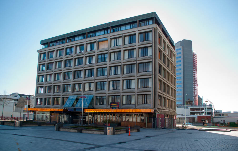 CML Building in Cathedral Sq. Christchurch. 25 July 2013.